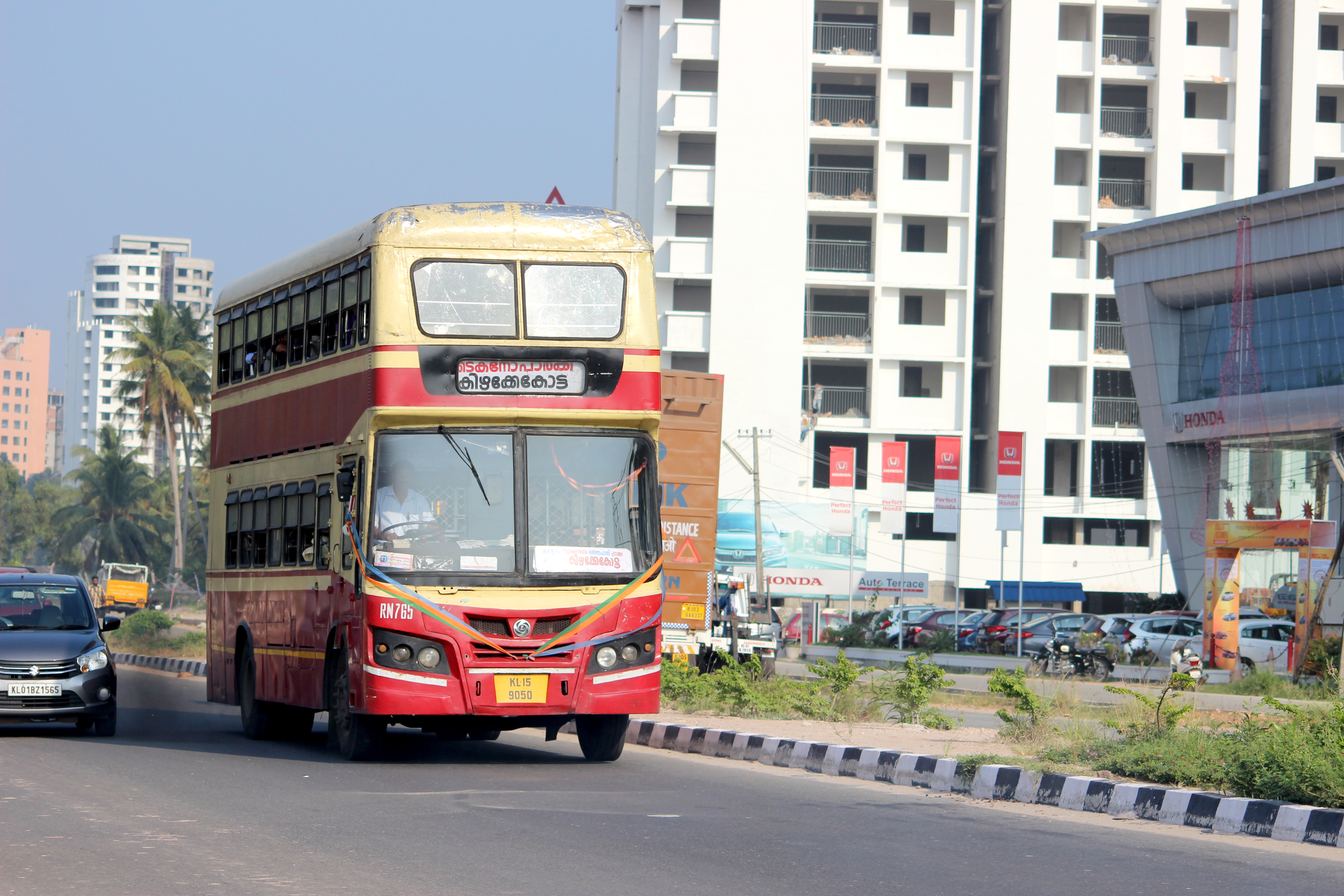 A Double Decker bus in streets of Trivandrum